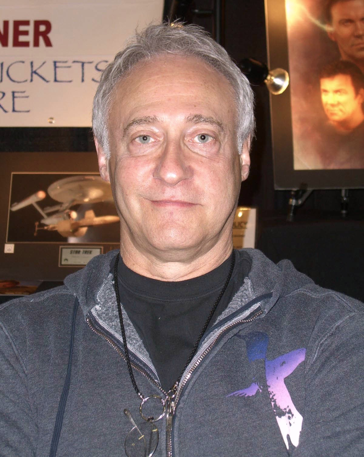 Actor Brent Spiner at the Big Apple Convention in Manhattan. Photographed by Luigi Novi. This photo may only be used if the photographer is properly credited. (See Licensing information below.)